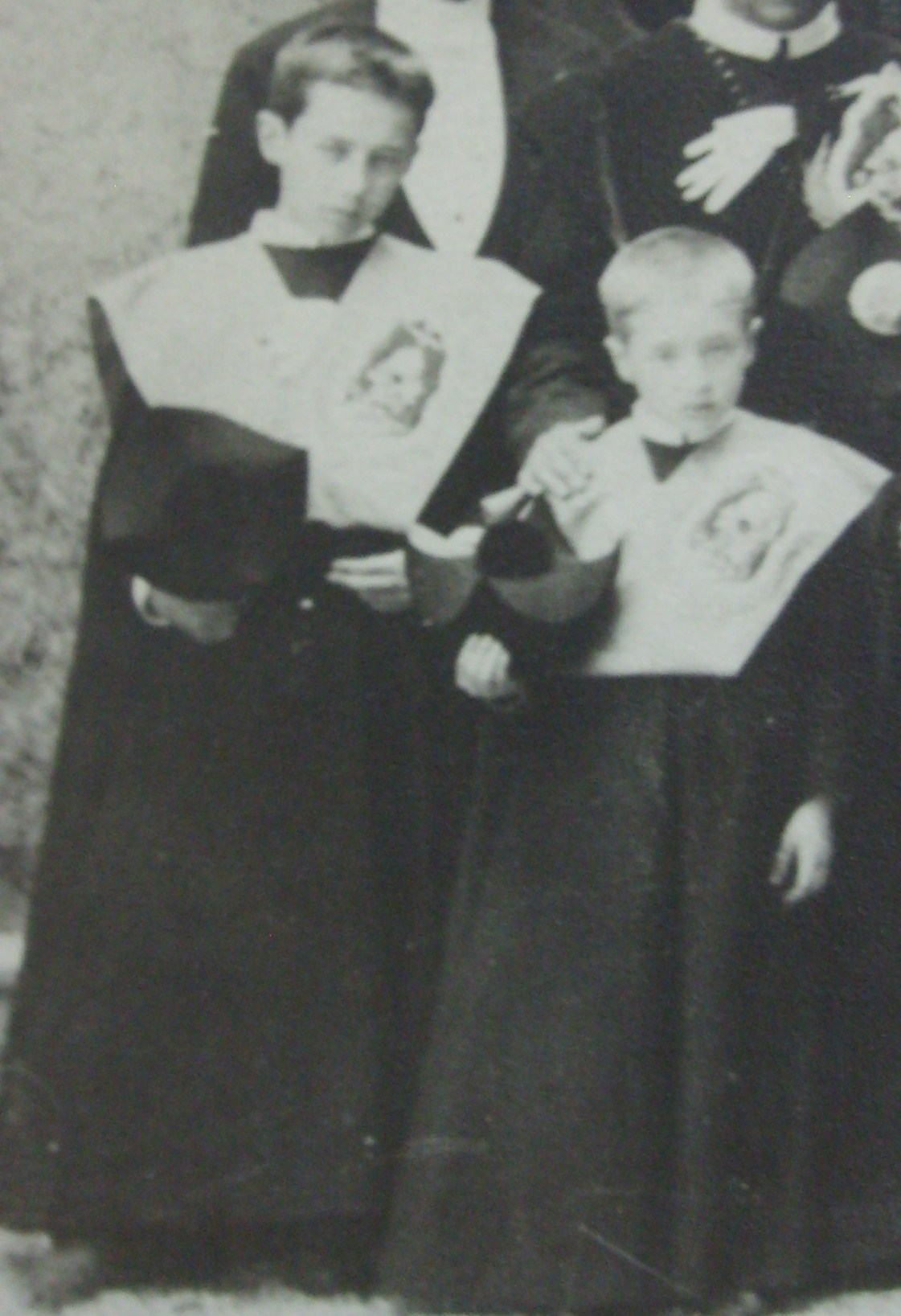 Alfonso y Guillermo Tritschler, Guillermo seventh archbishop of Monterrey, cononization in process, "Servant of God"